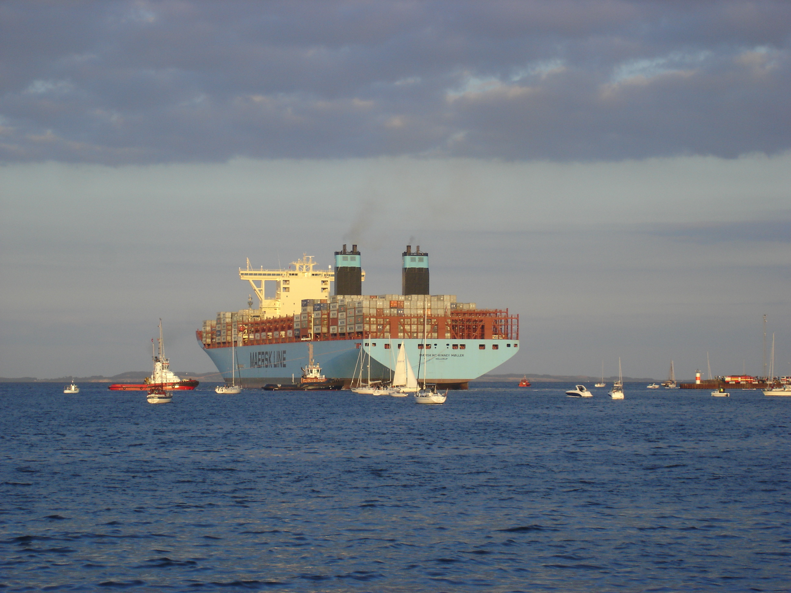 Mærsk Mc-Kinney Møller, the worlds largest ship, leaving Port of Aarhus on its maiden voyage